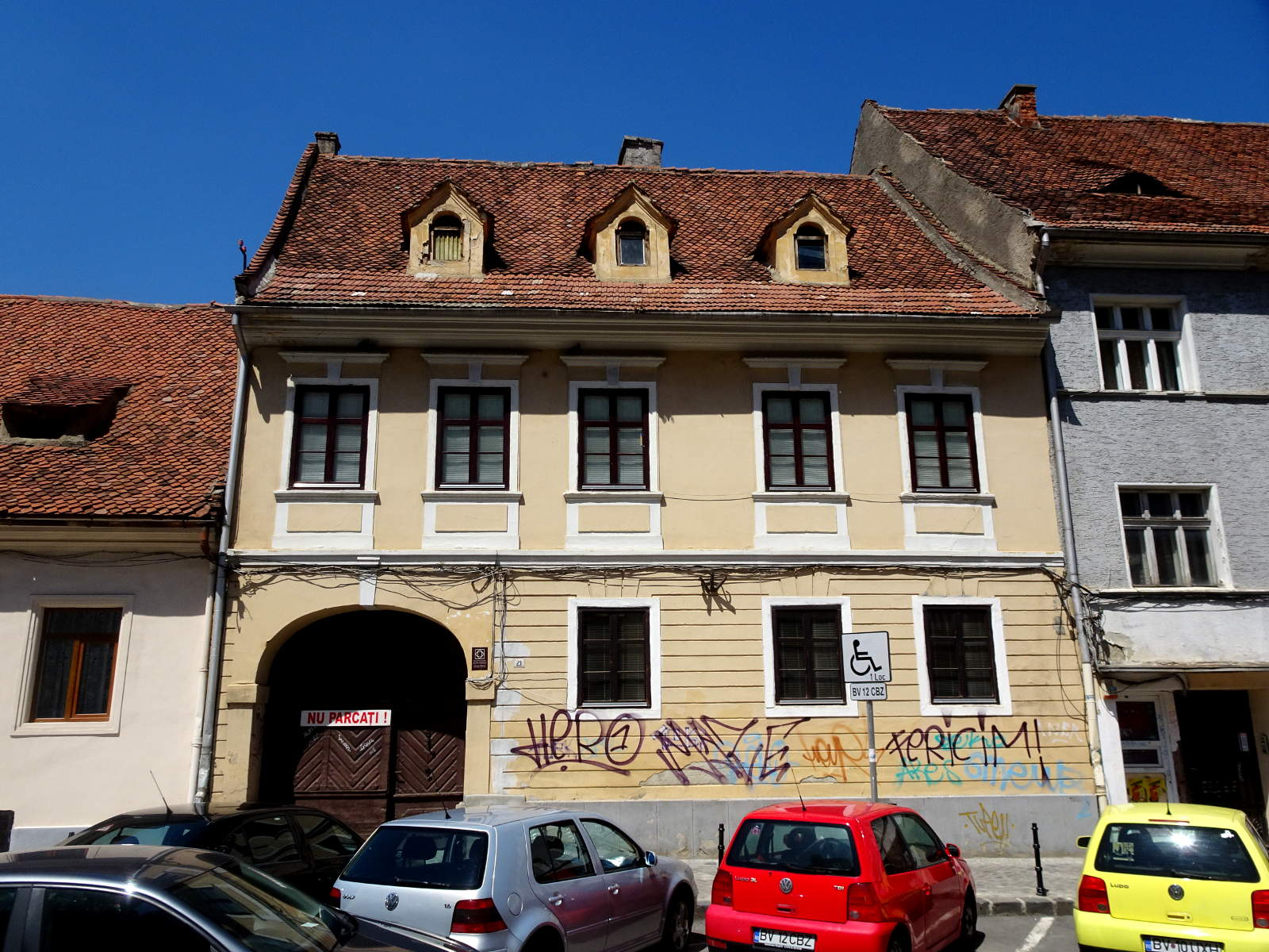 House in Bălcescu street, Brașov